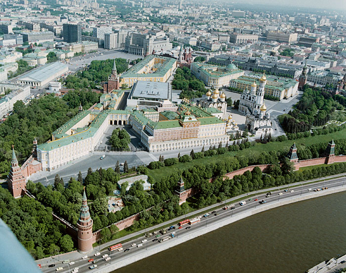 Moscow, Kremlin. Bird's Eye View from the southwest.